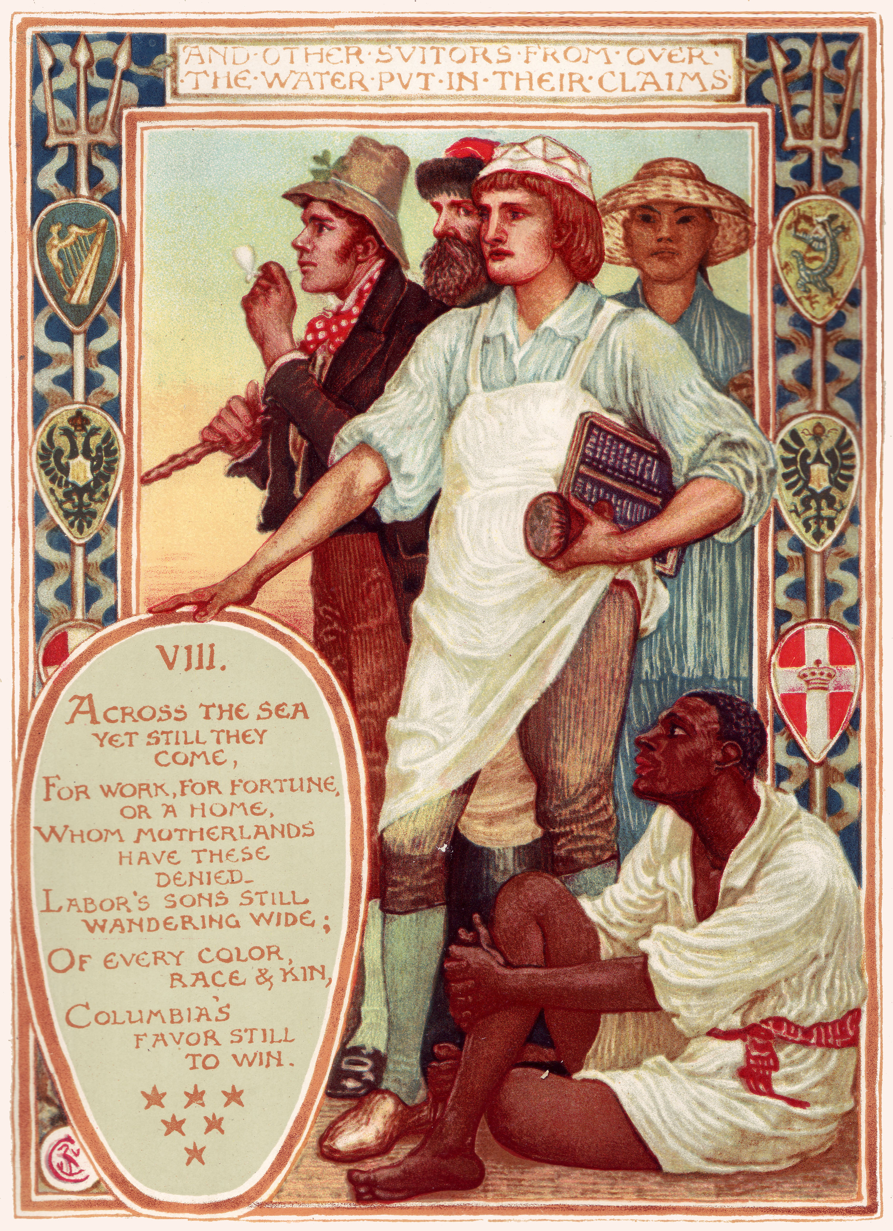 A page from Columbia's Courtship.